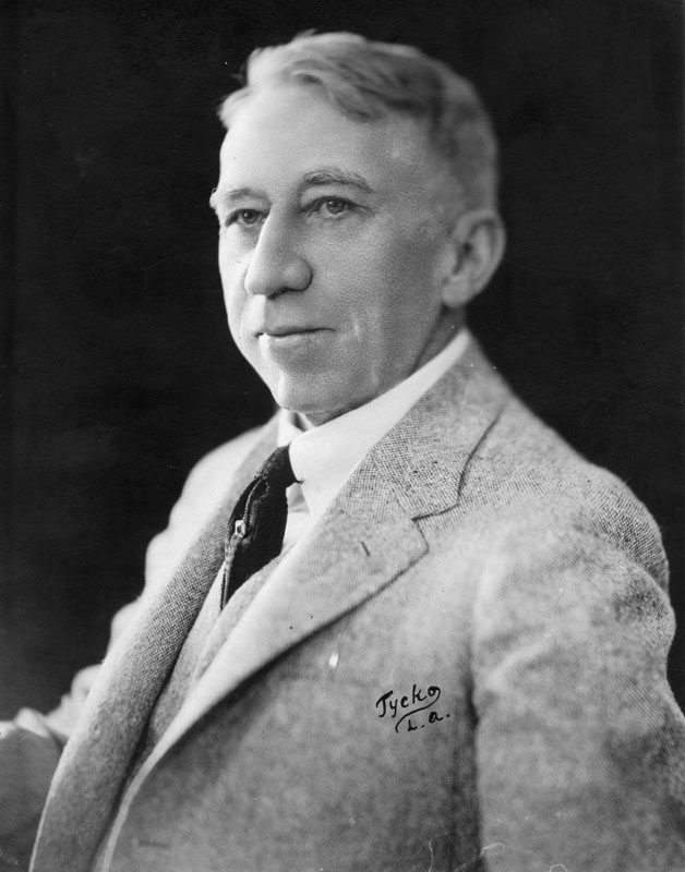 B&W portrait, Los Angeles, California.